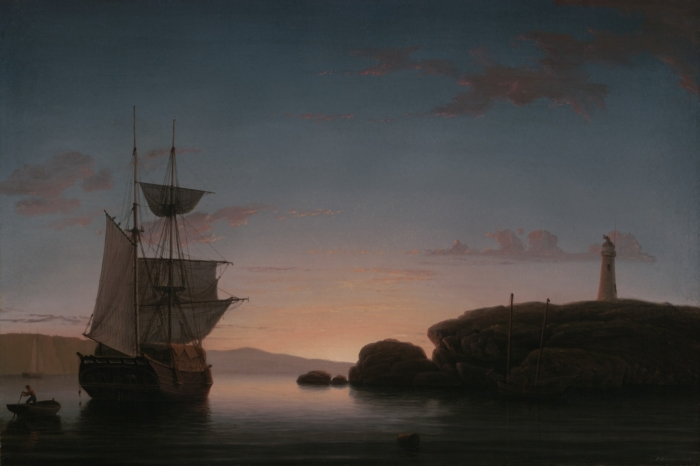 "Lighthouse at Camden, Maine," oil on canvas, by the American artist Fitz Henry Lane (Fitz Hugh Lane). 23 in. x 34 in. Yale University Art Gallery, gift of the Teresa and H. John Heinz III Foundation. Courtesy of Yale University, New Haven, Conn.